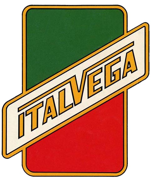 Bicycle headbadge logo for Italvega bicycle company.